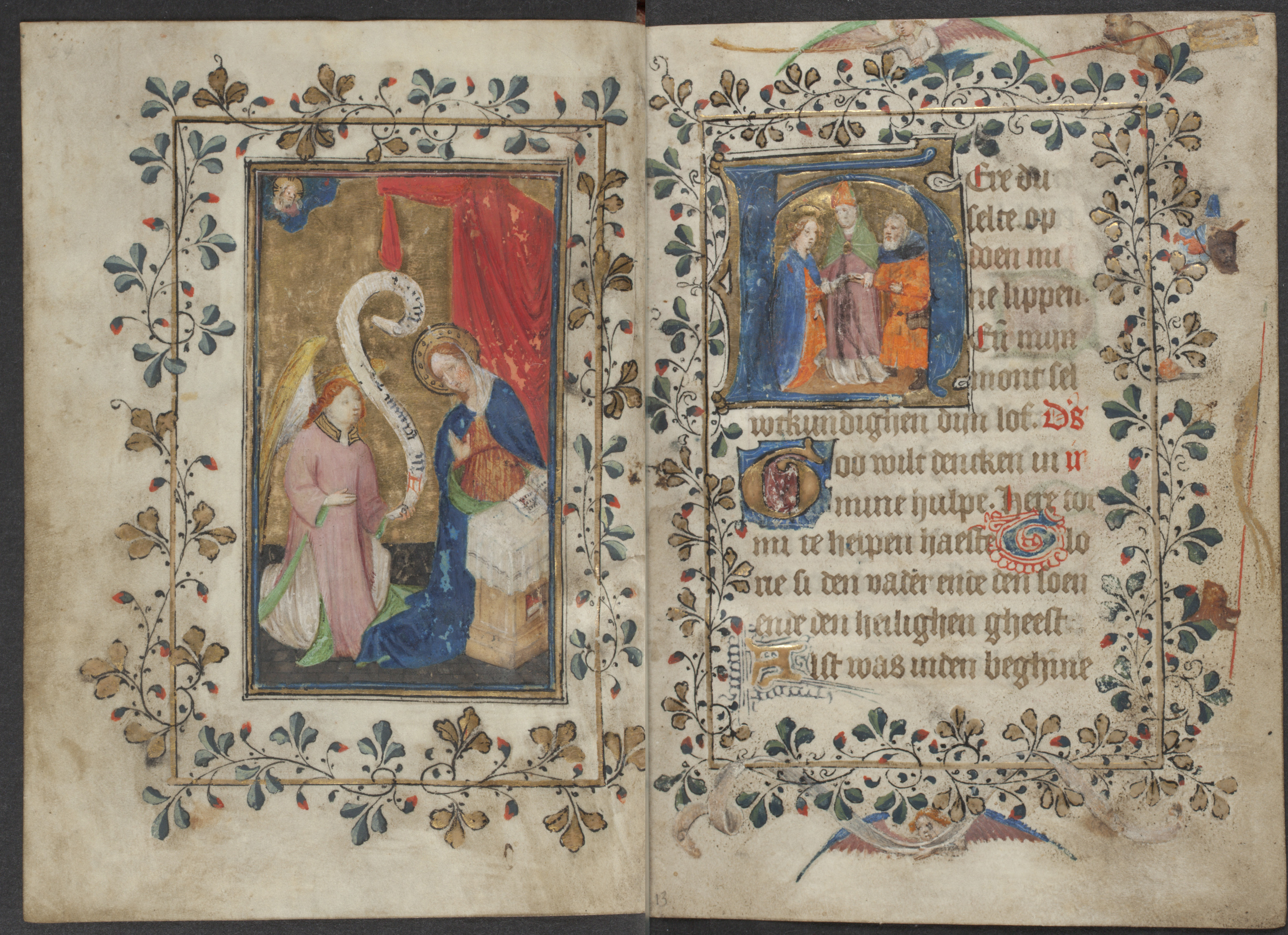 Lefthand side folio 012v and righthand side folio 013r from the Book of hours by the Master(s) of Zweder van Culemborg Illuminations on the left folio 012v The full-page miniature shows The Annunciation: Gabriel announces Christ's birth to Mary God the father as bearded old man, usually with crown or tiara or sceptre and/or globe (11C23) Codex - ll - codex open (49LL72) Reading (49N) The annunciation: mary kneeling (+ god the father) (73A523(+11)) Illuminations on the right folio 013r The historiated initial shows Bethrothal of Mary Roman script; scripts based on the roman alphabet (h) (49L12(H)) Historiated initial (49L171) Marriage of mary and joseph, 'sposalizio': they are married by the high priest (73A42)